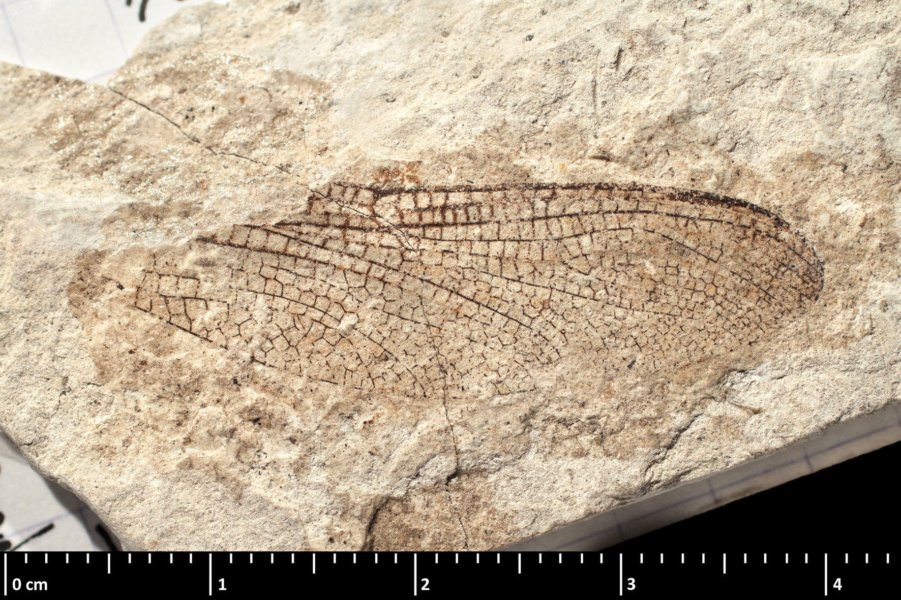 The Aeschnophlebia miocenica holotype specimen part side with direct lighting. Turolian, Miocene; Montagne d'Andance, Saint-Bauzile, Privas, France Muséum national d'Histoire naturelle specimen MNHN.F.R10404